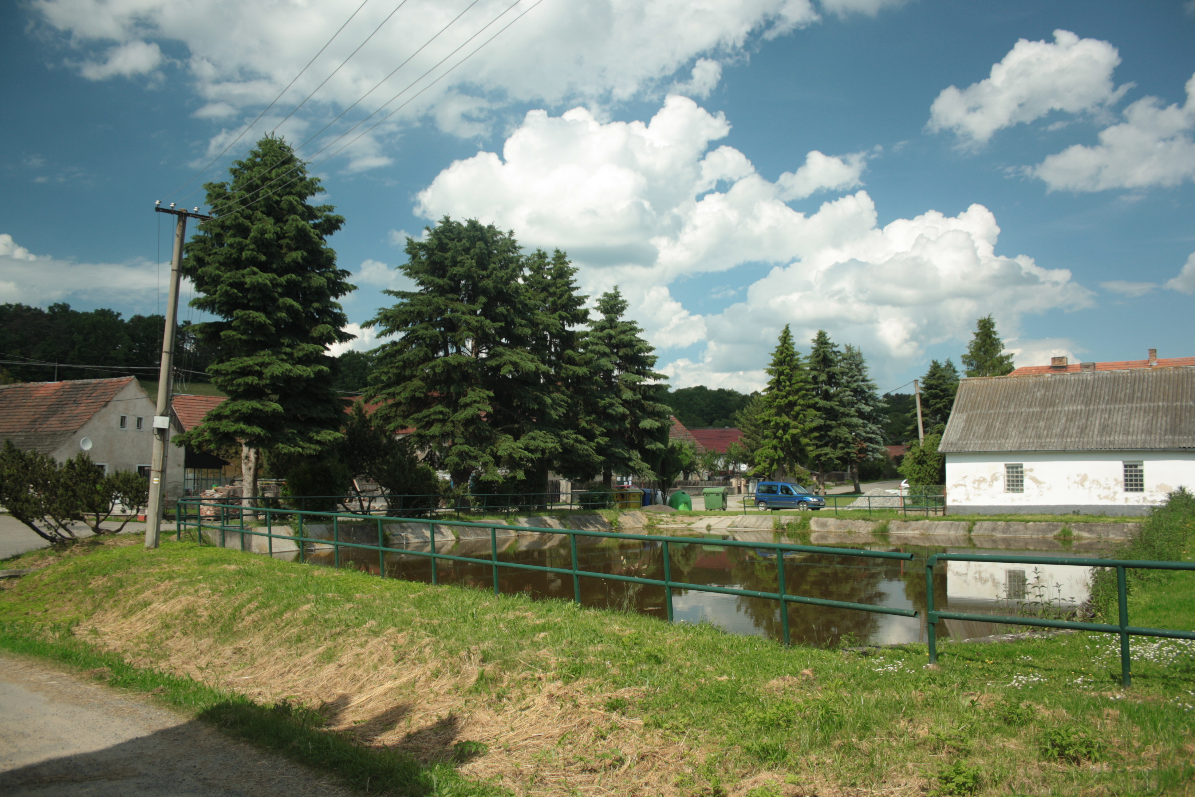 Small pond in the village of Úročnice, part of the town of Benešov, Central Bohemian Region, CZ